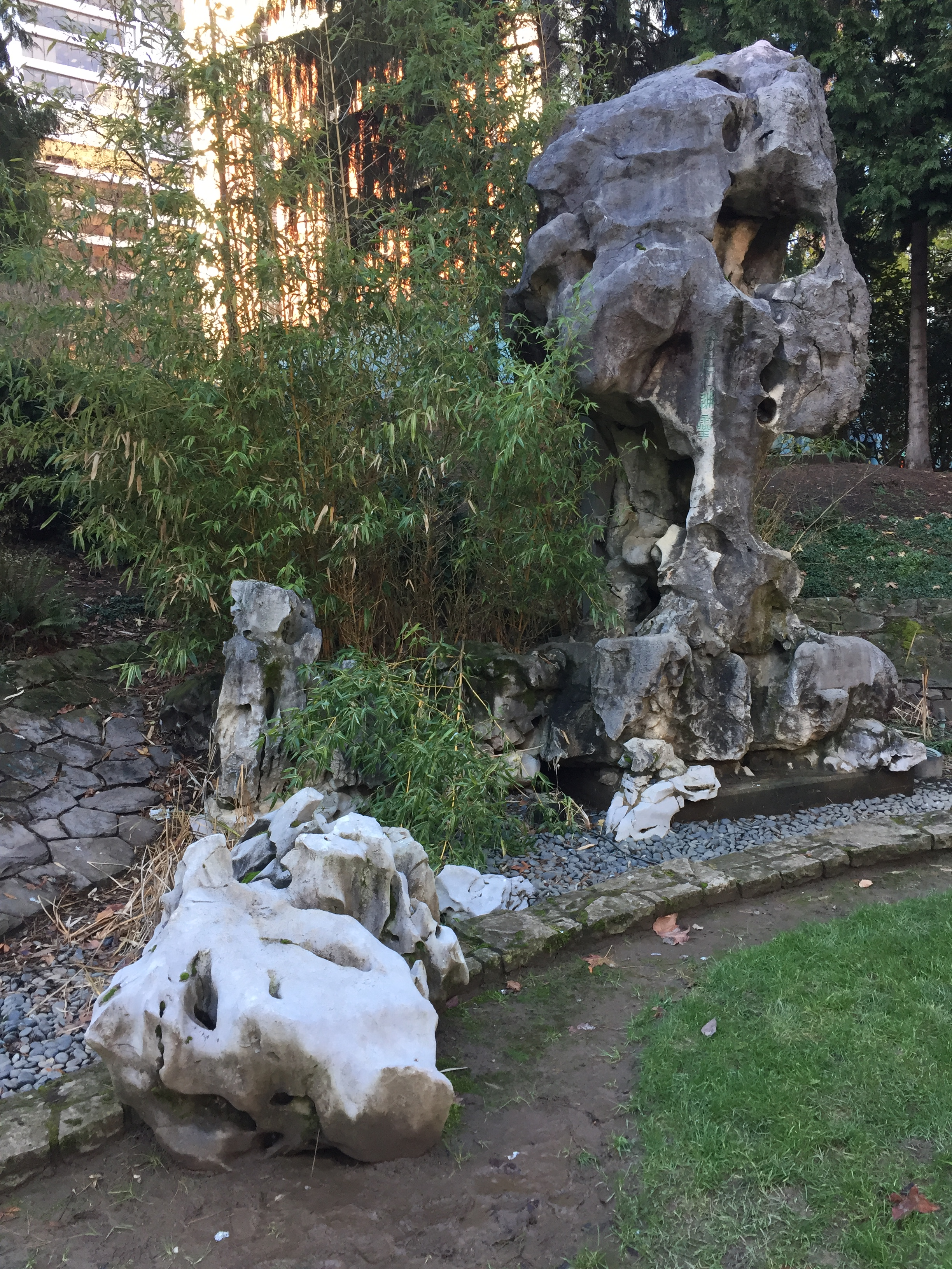 Lake Tai Rocks at Terry Schrunk Plaza, Portland, Oregon